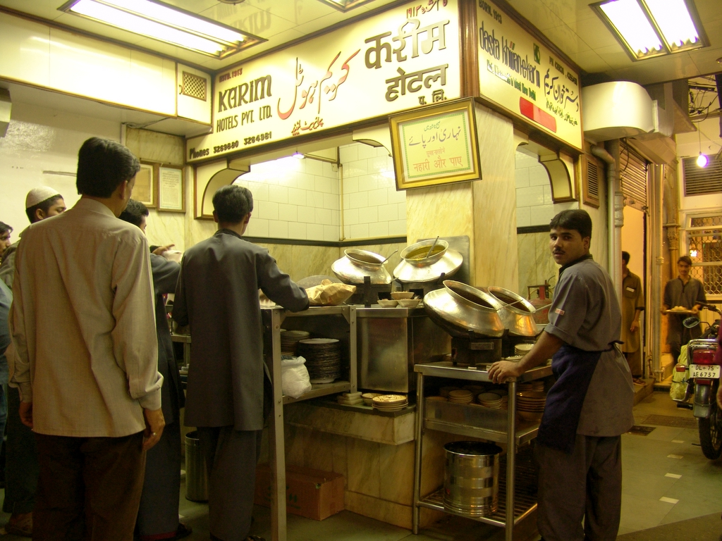 Best joint to eat meat and NOT go bankrupt in delhi...